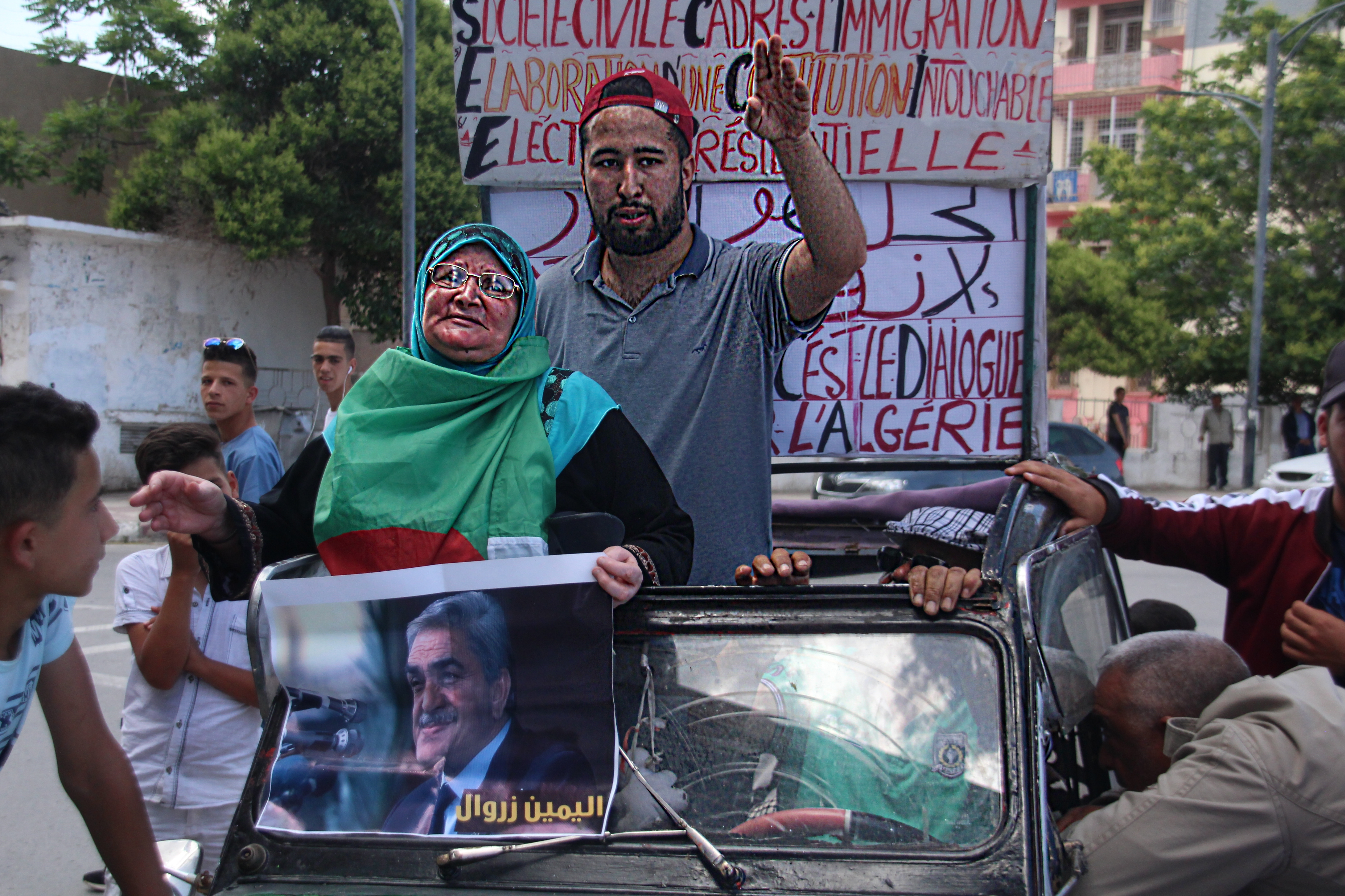 ⵜⴰⵎⴰⵣⵉⵖⵜ ⵜⴰⵏⴰⵡⴰⵢⵜ: Hawlafth f tikli n laghruz n l'auras feljalth natmurth nssen tlaghan f thlalli natmurth nssen This is an image with the theme "Africa on the Move or Transport" from: Algeria